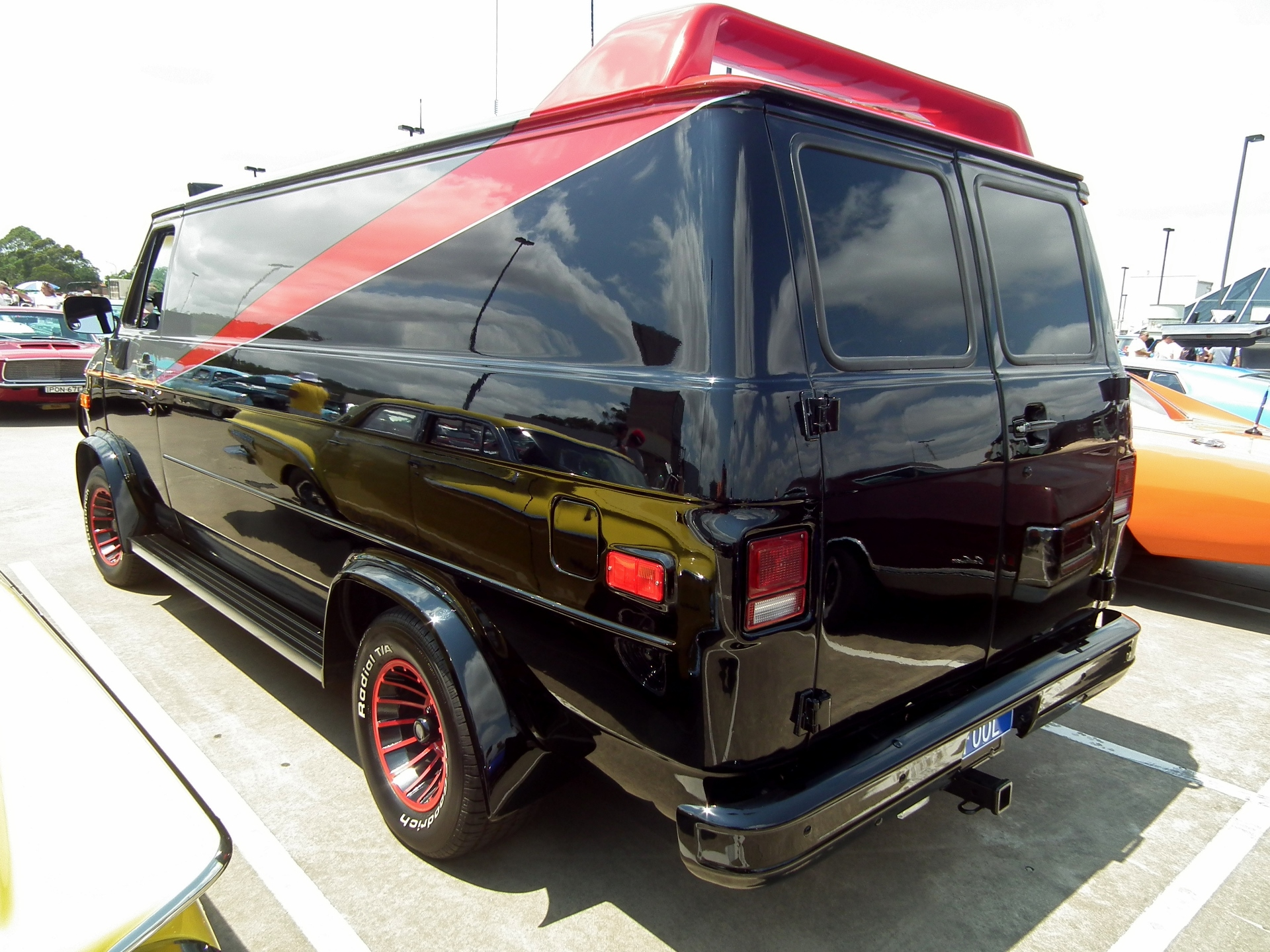 1983 GMC G-Series panel van - A Team. Taken at the 2014 New South Wales All American Day, held at Castle Towers Shopping Centre, Castle Hill, Sydney.